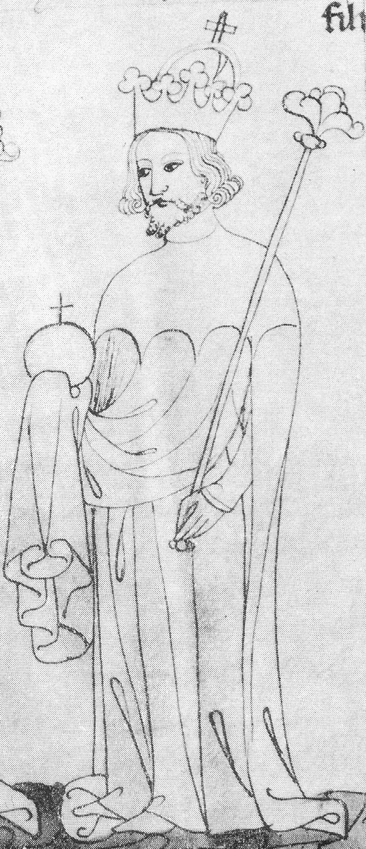 Charles IV, Holy Roman Emperor